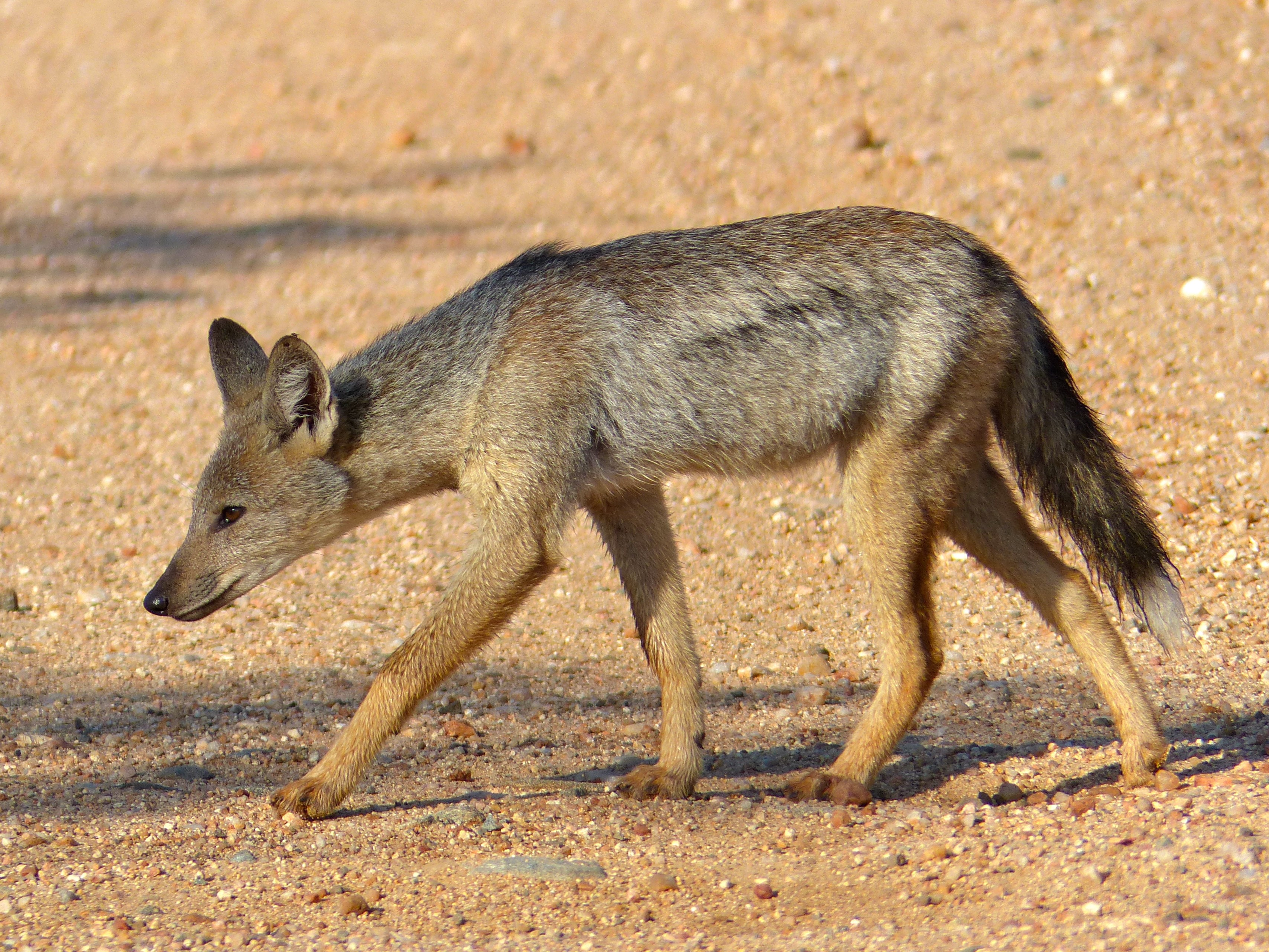 S131 Road West of Letaba, Kruger NP, SOUTH AFRICA